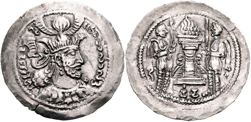 Kidarites ruler Kidara circa 350-385 CE in Sasanian style. AR Drachm (30mm, 3.79 g, 3 h). Crowned bust right, rosette by chin / Fire altar flanked by attendants; ‘Namdaya’ in Brahmi script below.